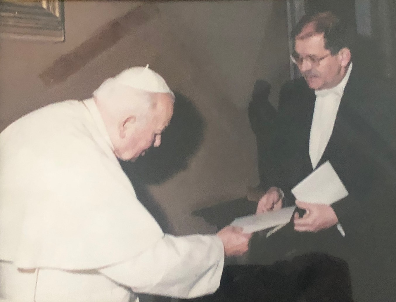 Darko Tanasković and Pope John Paul II. The photo can be found in the Society for Culture, Art and International Cooperation Adligat in Belgrade, Serbia. Српски (ћирилица): Проф. др Дарко Танасковић и папа Јован Павле II. Фотографија се налази у легату Дарка Танасковића у Удружењу за културу, уметност и међународну сарадњу Адлигат у Београду.